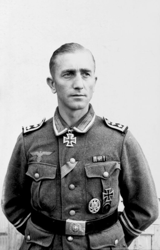 The double "piston rings" on both cuffs (of sleeves) on the uniform jacket identify the carrier of the uniform as soldier of the German Wehrmacht (with the rank of Oberfeldwebel (OR-7)) in the position of a "Hauptfeldwebel" or "Spiess" (company sergeant).